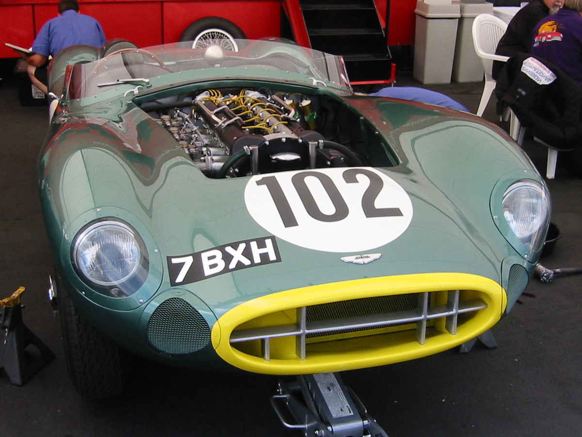 1957 Aston Martin DBR2/2 (the second of only two made, UK "7 BXH" license), owned by Greg Whitten of Medina, WA.[1] Here at Monterey Historic Races in 2004, probably 13–15 August 2004.